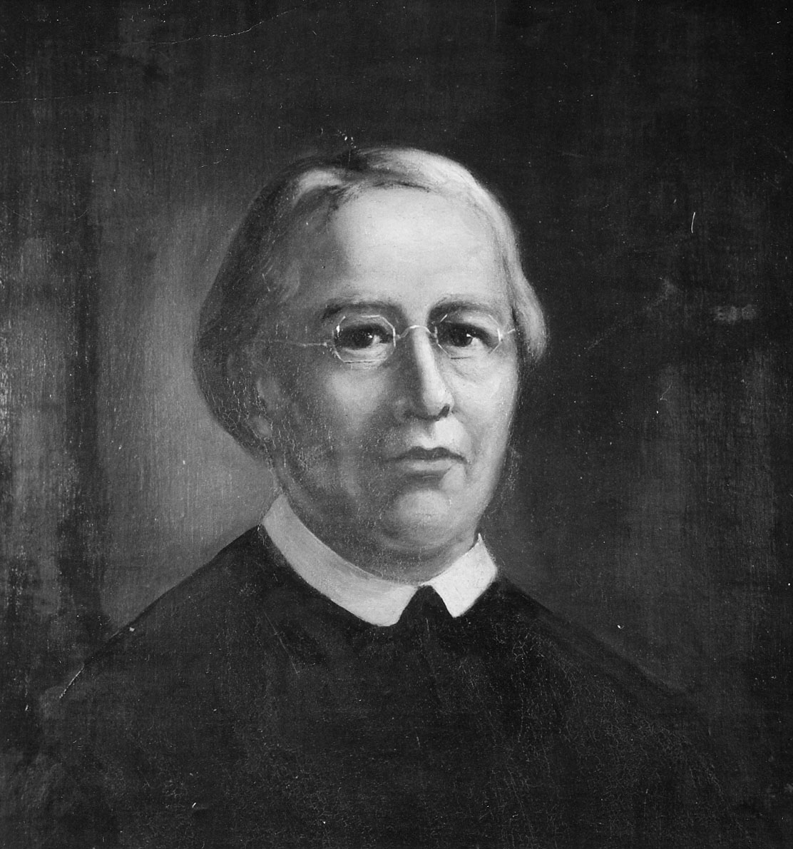 Portrait of Rev. William Feiner, president of Georgetown College